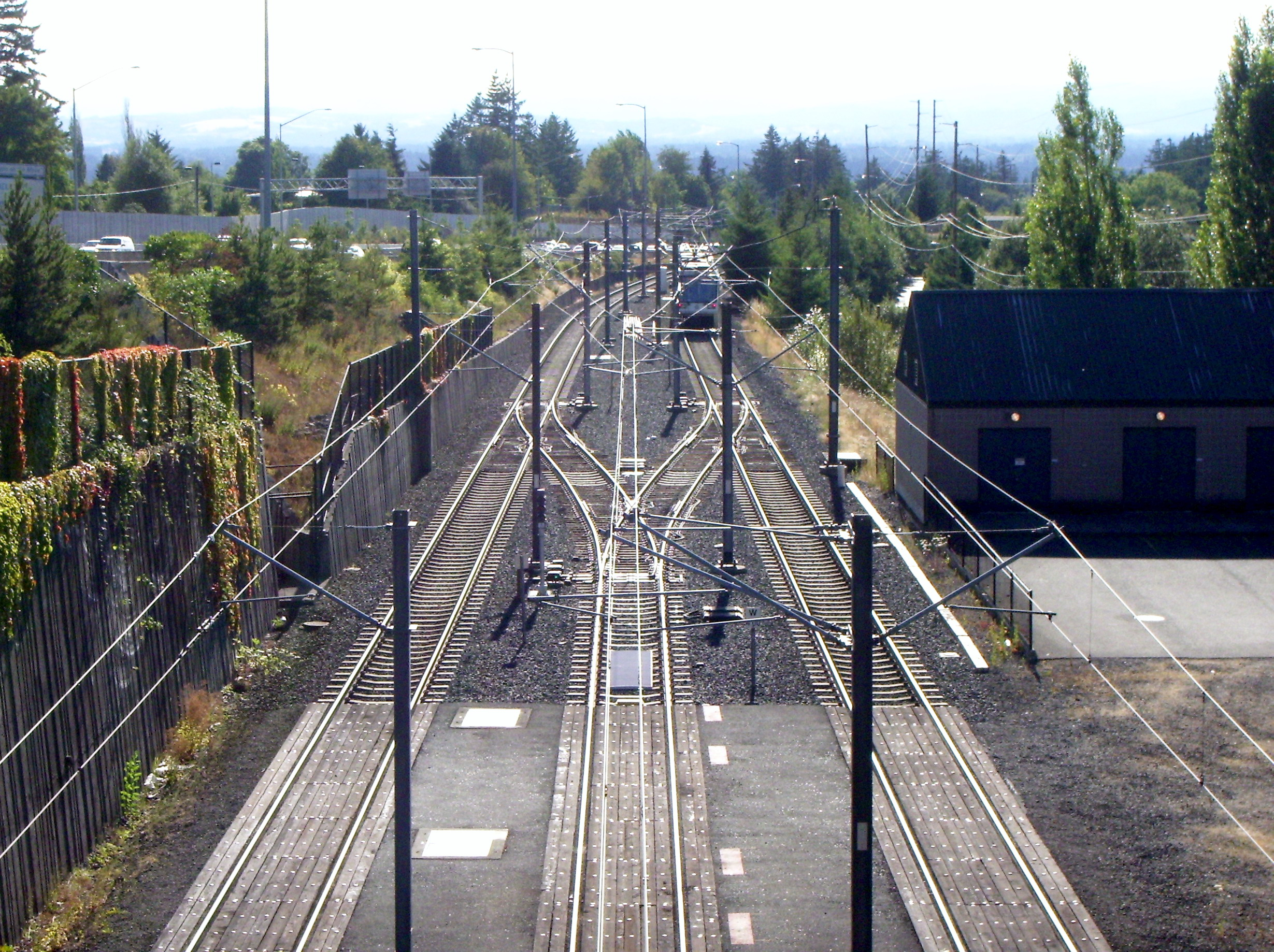 Just outside the west end of the Robertson Tunnel is a middle track which allows a full MAX Light Rail train to be removed from both tracks for passing and managing exceptional tunnel conditions. The building at right is a conversion station to produce the west end tunnel power. The Sunset Highway is visible at left. The Oregon Coast Range is visible on the horizon.